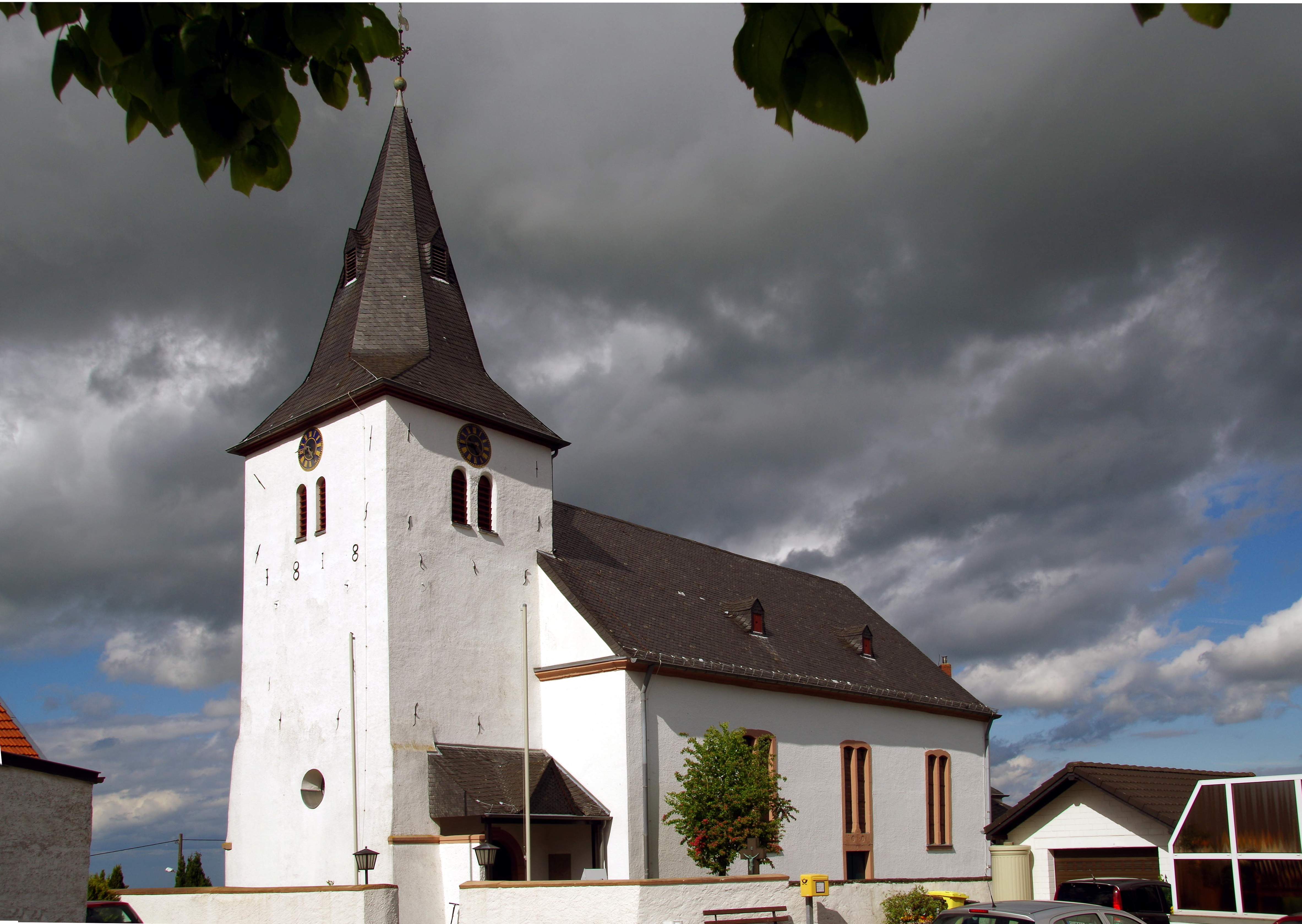 Keldenich, St. Dionysius. Wikidata has entry Q25089433 with data related to this item.